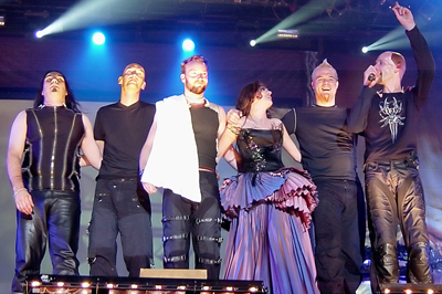 Within Temptation @ M'era Luna